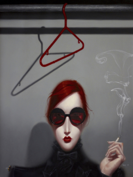 This oil on canvas painting was created by Canadian pop surrealist painter Troy Brooks in Early 2014 in Toronto.